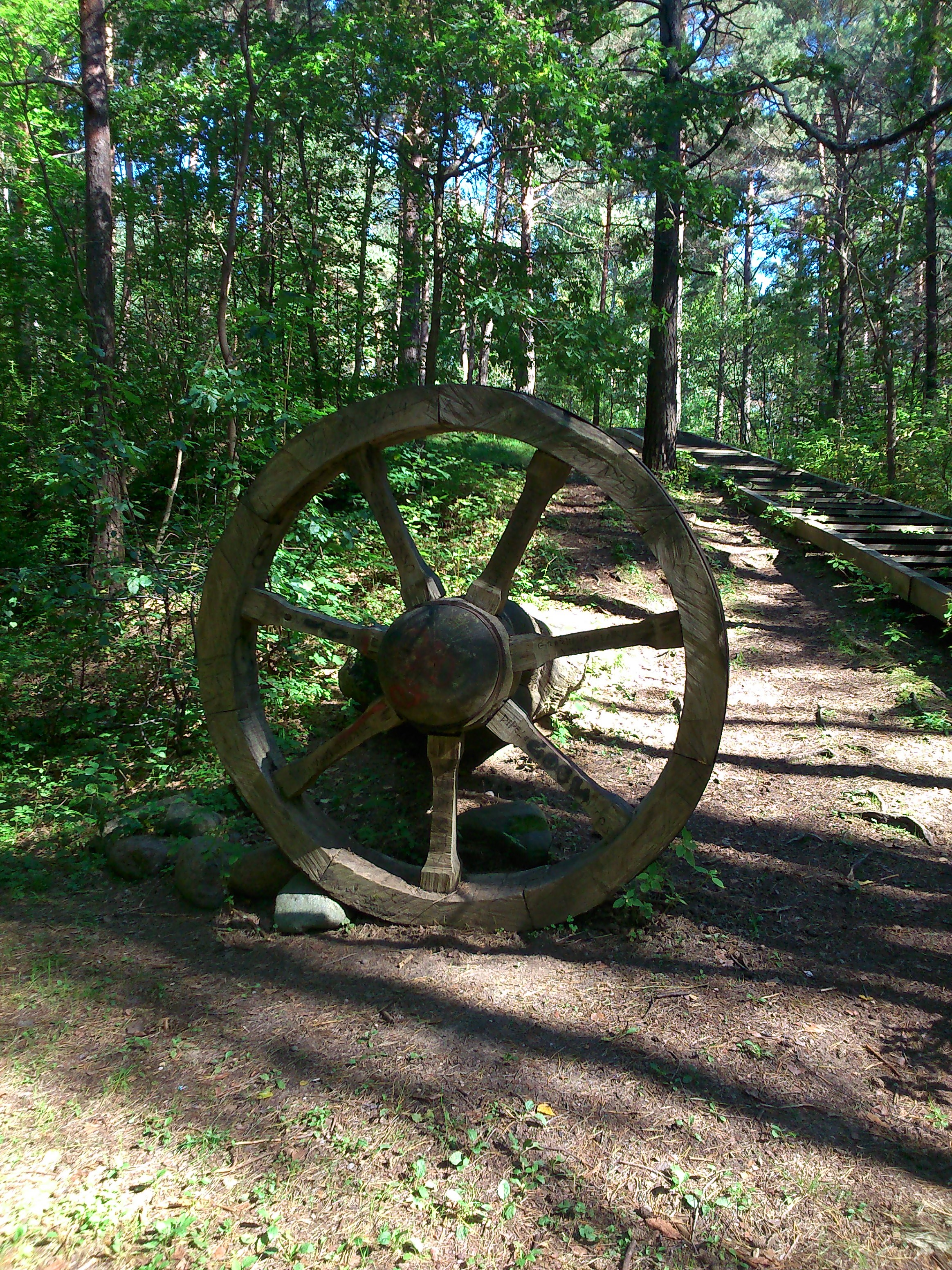 Pasaku parkas, Vilnius